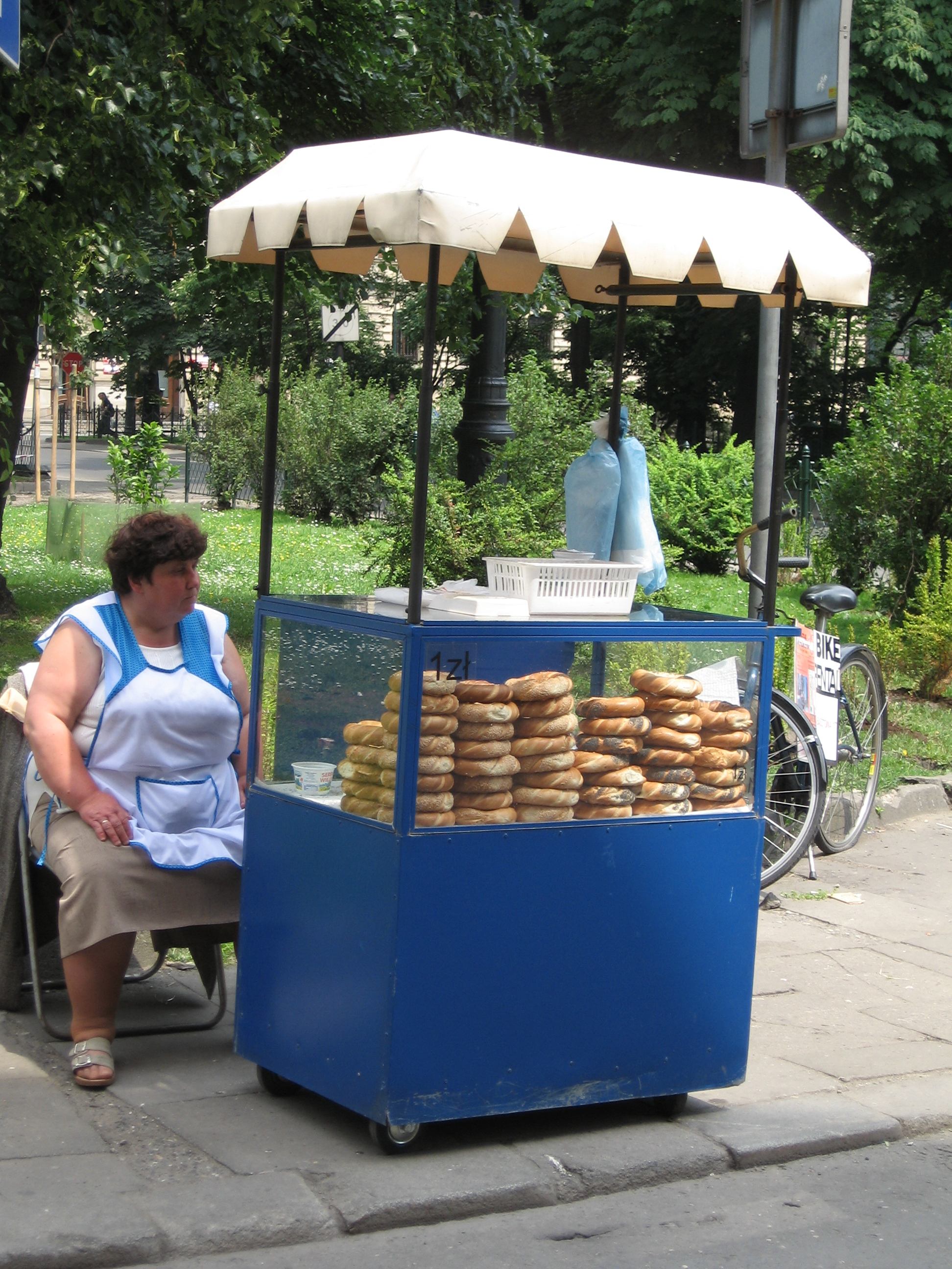 Obwarzanki sold on a street